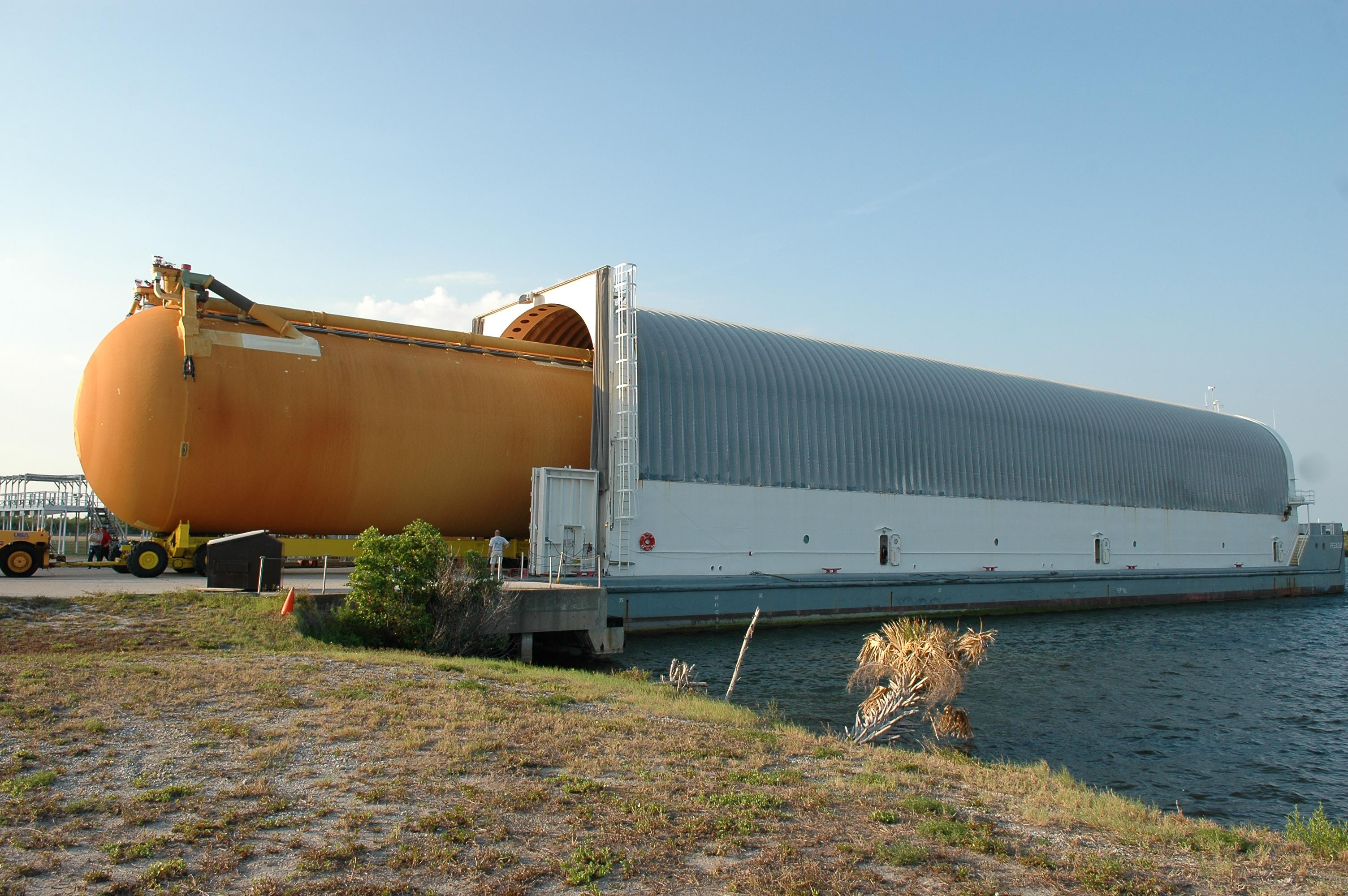 The redesigned external fuel tank, designated ET-118, that will launch Space Shuttle Atlantis on mission STS-115 is offloaded from the Pegasus barge that carried it from the Michoud Assembly Facility in New Orleans. The tank will be moved into the Vehicle Assembly Building and lifted into a checkout cell for further work. It will fly with many major safety changes, including the removal of the protuberance air load ramps.